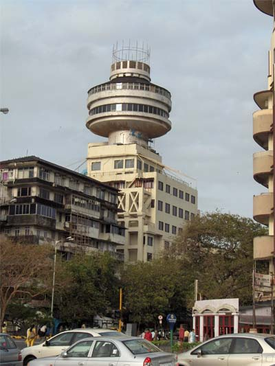 Ambassador Hotel Source: Taken by me on 11-Aug-2005